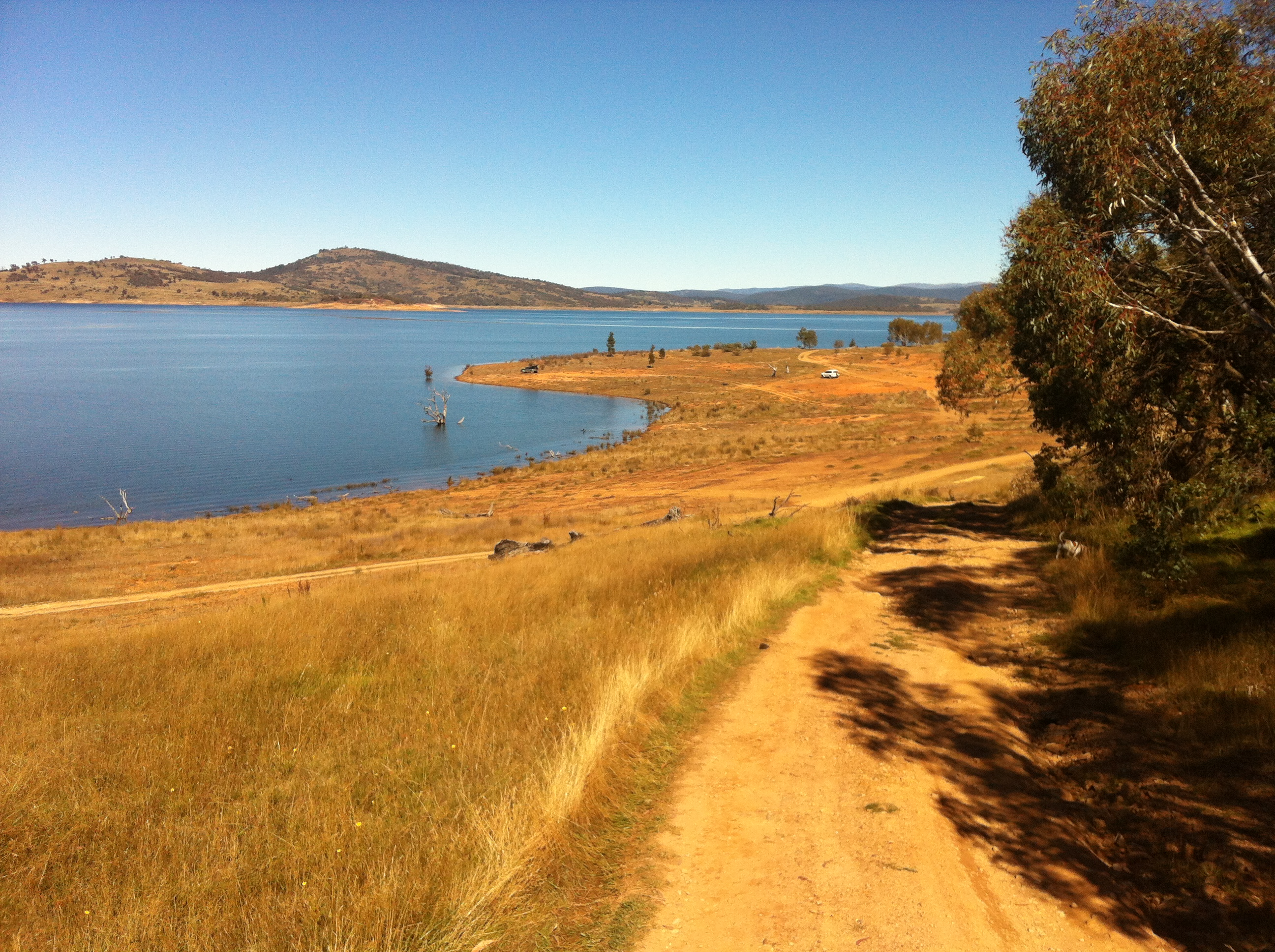 Lake Eucumbene, New South Wales. Mt Cobrabald is in the centre background and the Kosciuszko National Park and Jagaungal Wilderness is in the distance on the right.